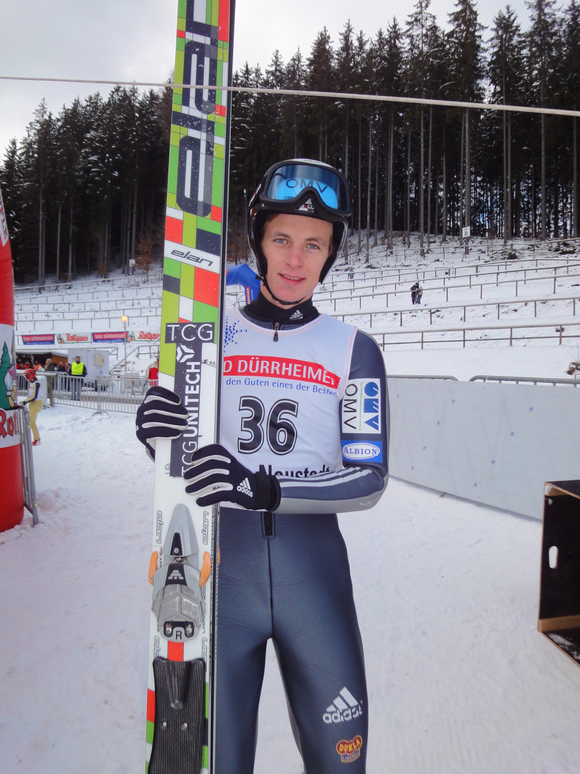 Martin Cikl: the photo was taken during Saturday's competition of 2011's Continental Cup event at the Hochfirstschanze in Titisee-Neustadt